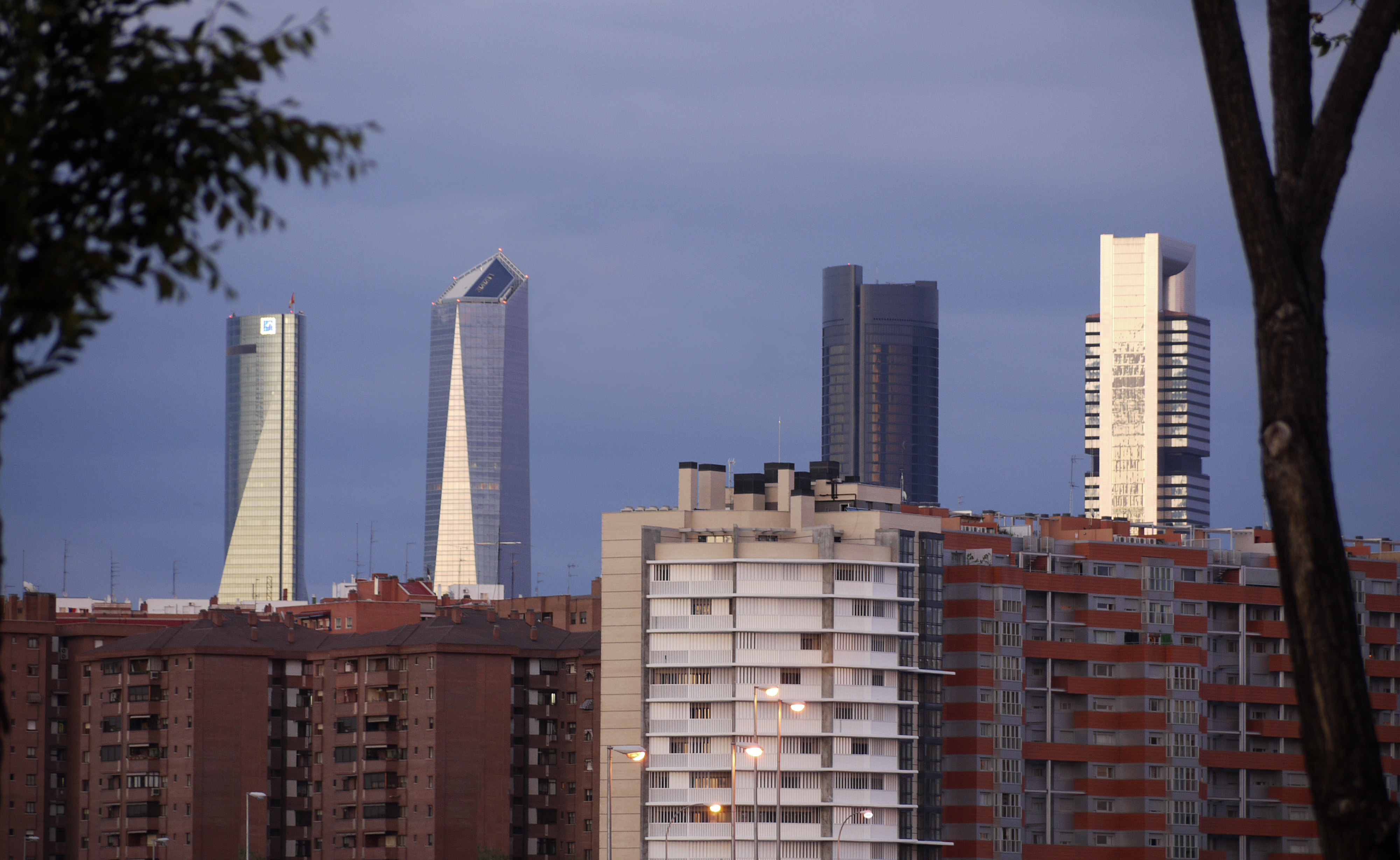 Madrid Cuatro Torres Busines Area, seen from the west (Puerta de Hierro). Madrid, Spain